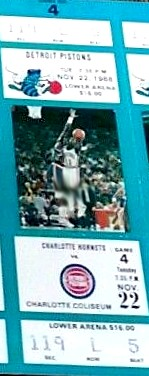 A ticket for a November 22, 1988 National Basketball Association game featuring the Detroit Pistons versus the Charlotte Hornets at the Charlotte Coliseum.